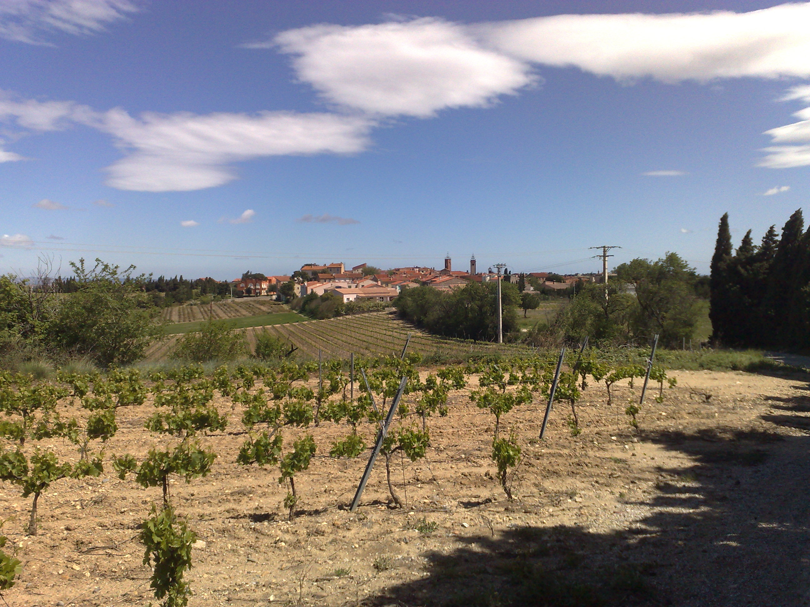 The village of Ponteilla, in the south of France